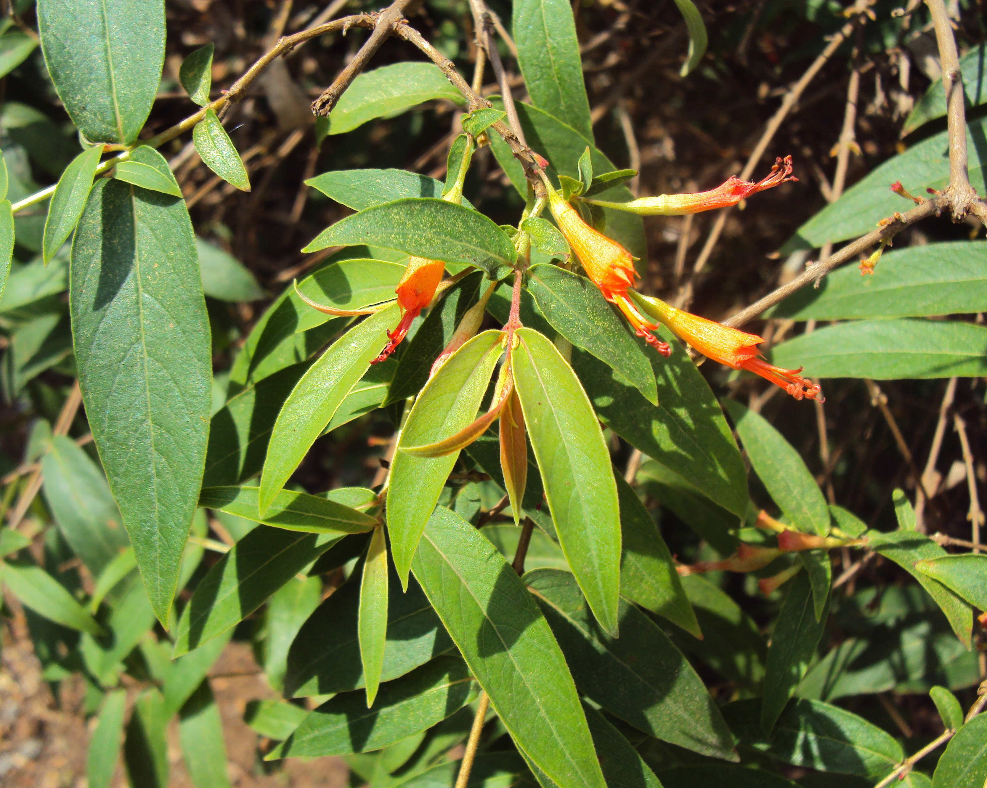 താതിരി. Taken from Botanical garden of Kariyavattam University Campus, Trivandrum.